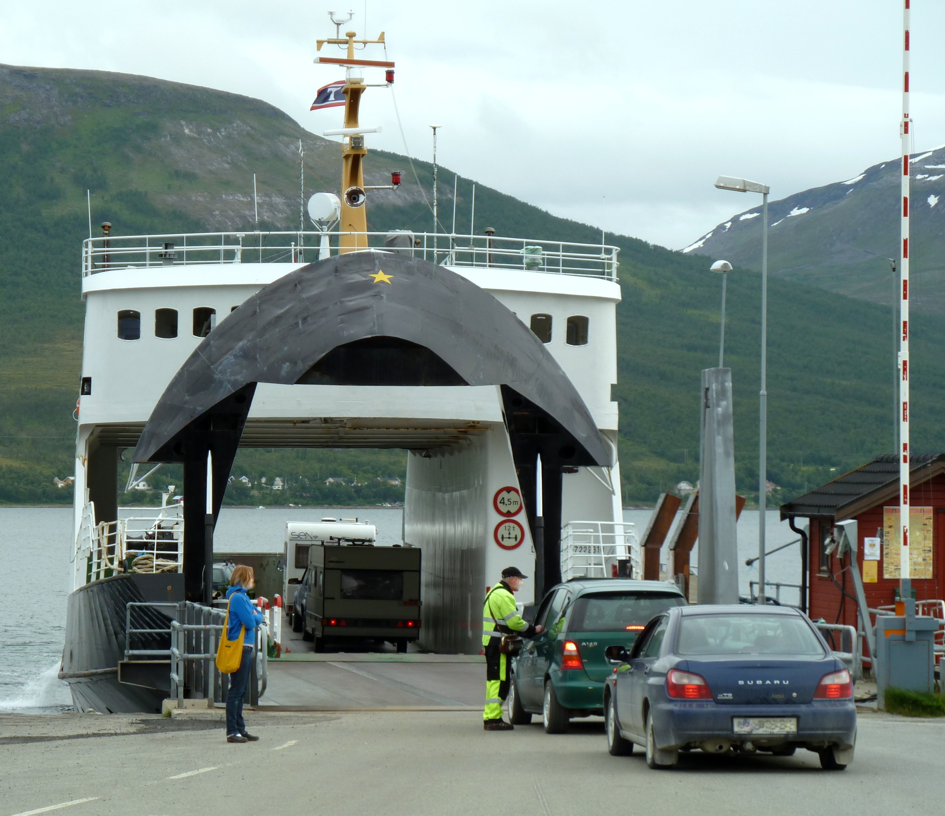 MF Salangen in Hansnes, Troms, connecting Ringvassøya and Reinøya. Ship owned by Torghatten Nord company (2012).